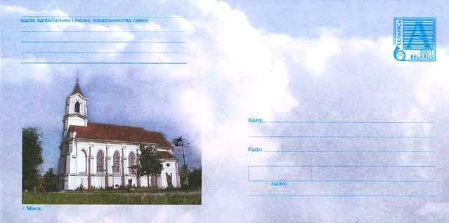 BelPost's envelope of 2001. Saint Roh's (Holy Trinity) church in Minsk on the Gold hill.